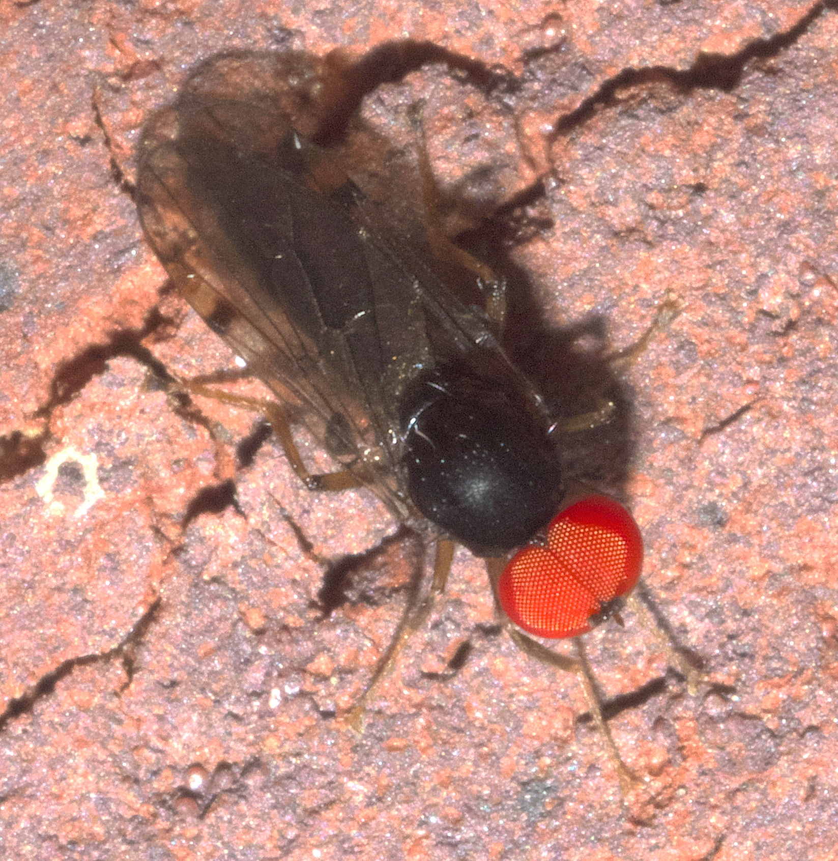 Syneches simplex, Family: Hybotid Dance Flies, Size: 4.9 mm, ID Confidence: 88